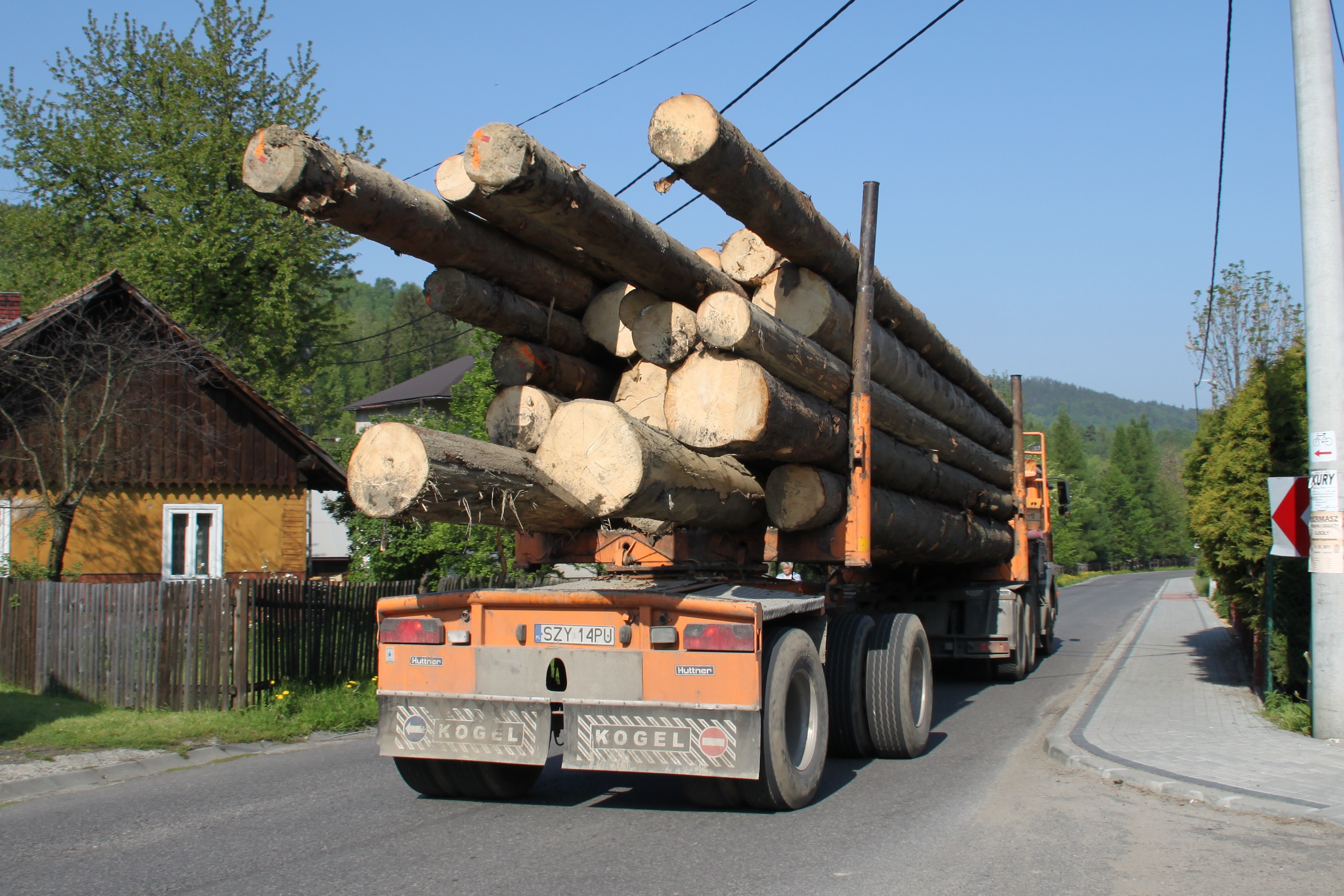 Wood transport, Ujsoły, Poland.